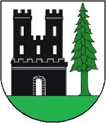 Coat of arms of Châtillon, Canton of Jura, Switzerland (Source: Symbol on the wall of the municipal administration)